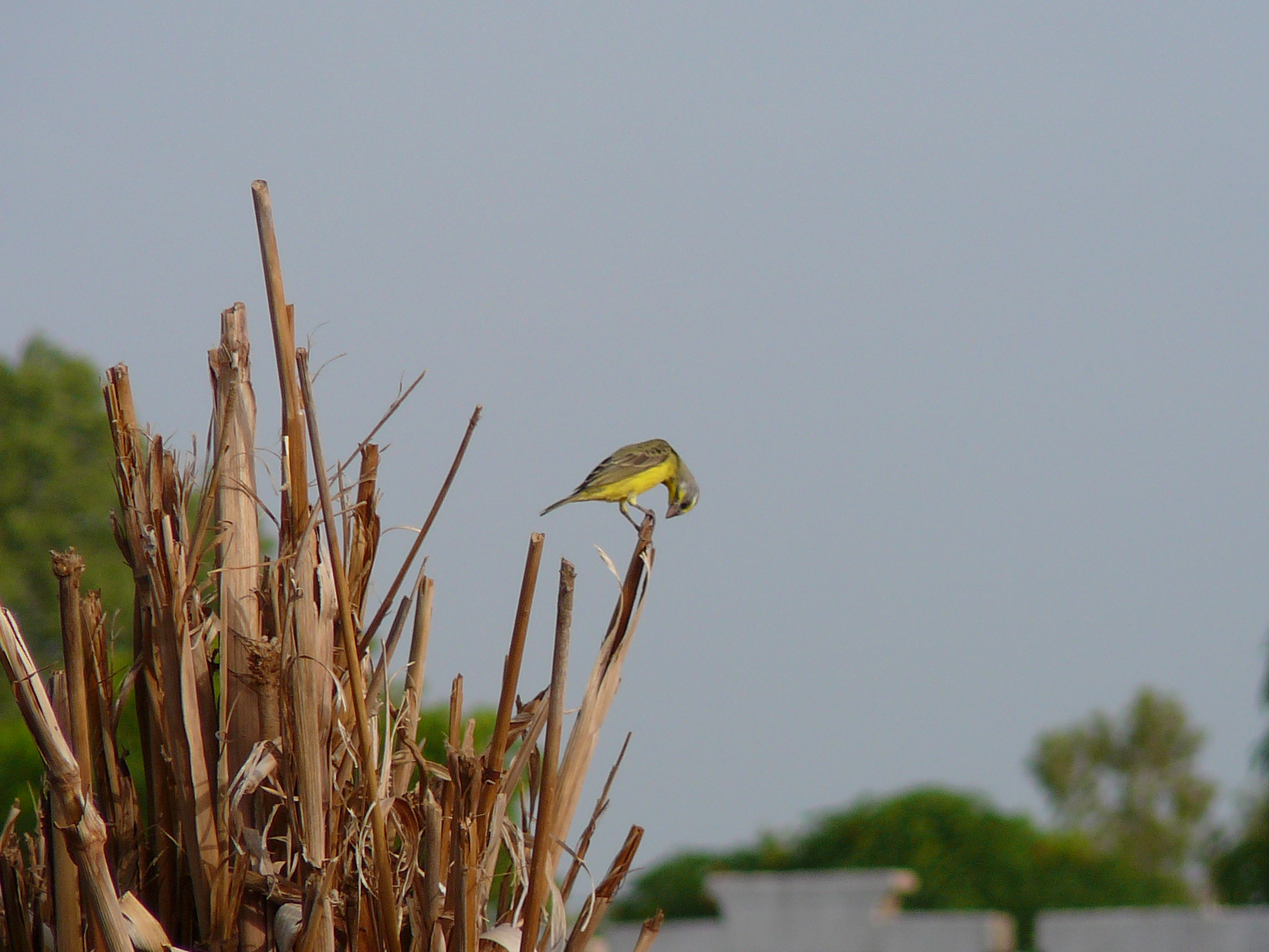 Yellow-fronted Canary